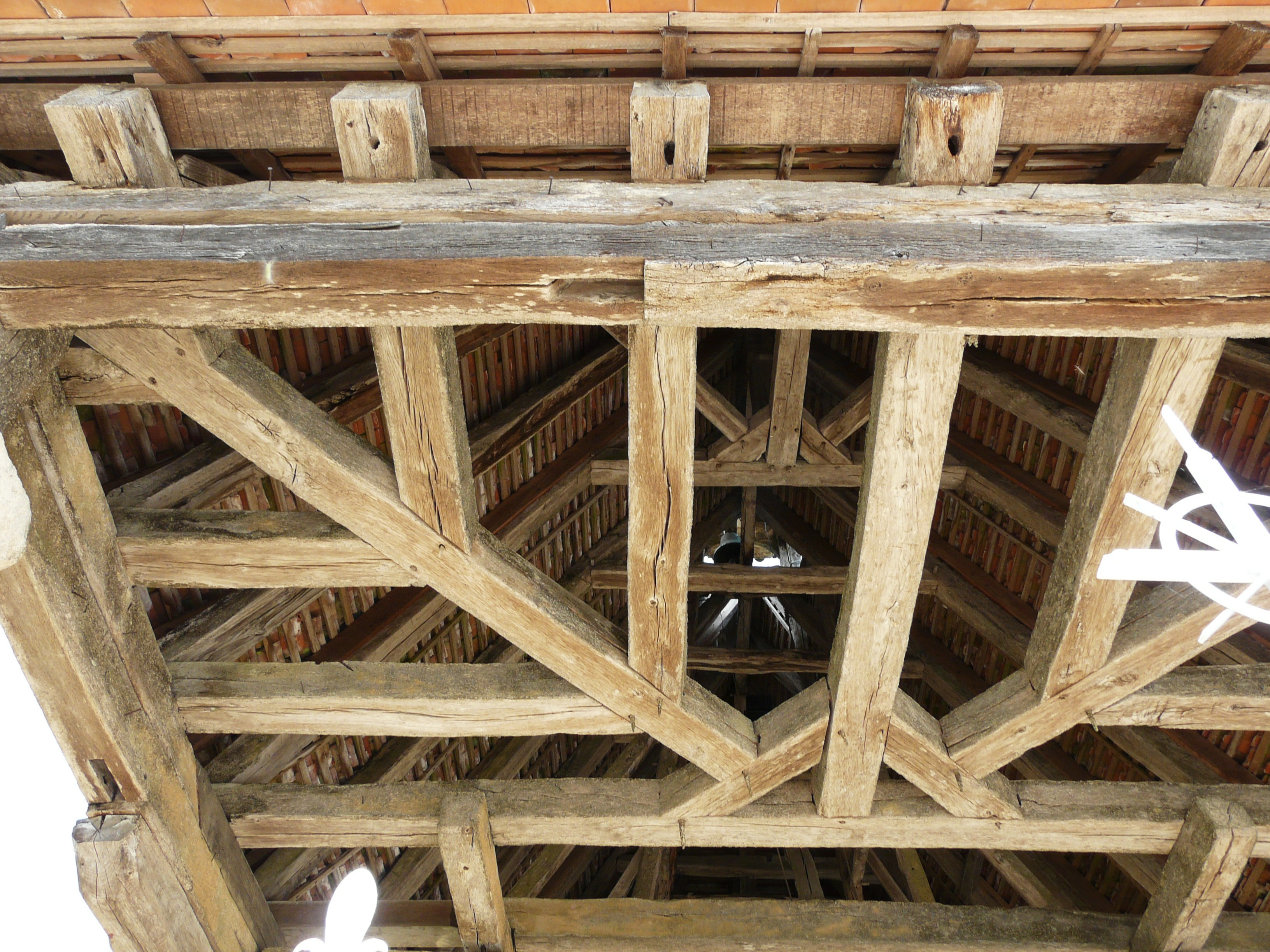 The timber framing of the Notre-Dame-de-Bonne-Espérance, Azerat, Dordogne, France. The angled beams are called dragon beams.